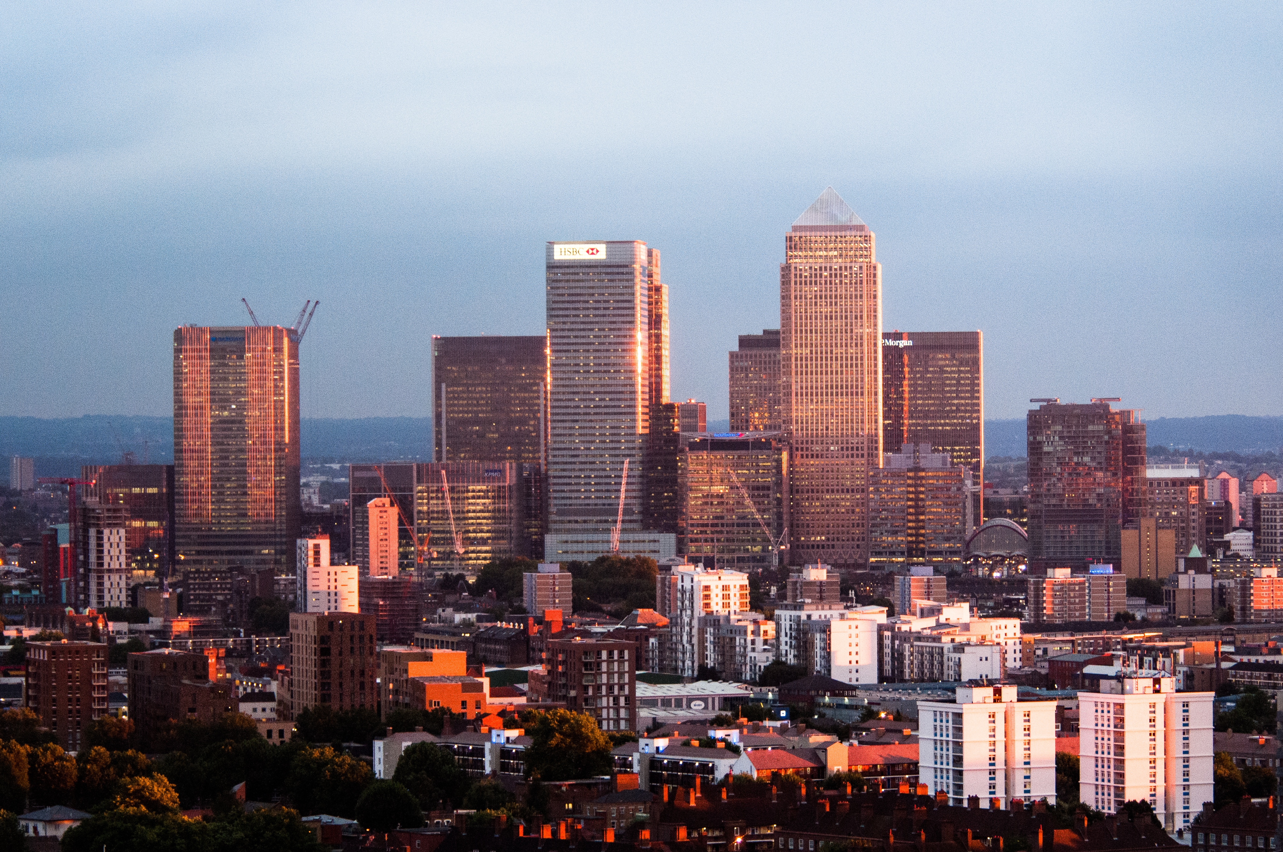 Canary Wharf